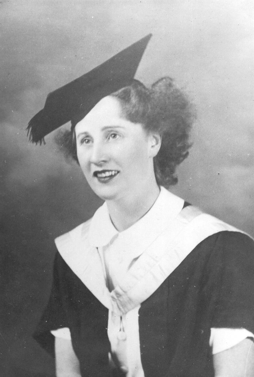 Portrait photograph of Ann Henderson at her Art Degree Graduation